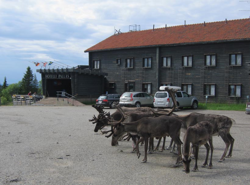 Reindeer and Pallas hotel in Muonio, Lapland, Finland.